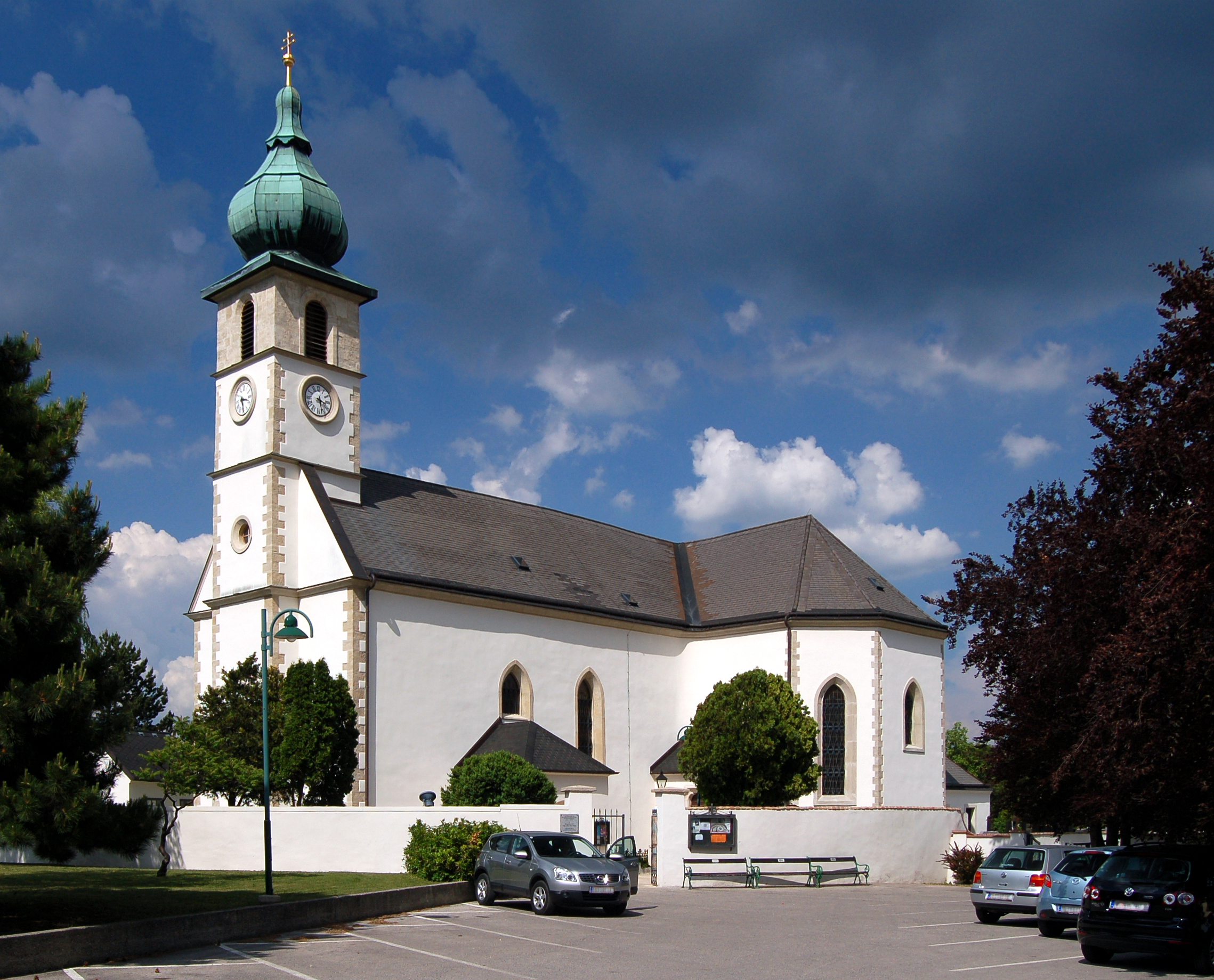 The catholic parish church of Saint John the Baptist in Trumau, Lower Austria, is a cultural heritage monument.